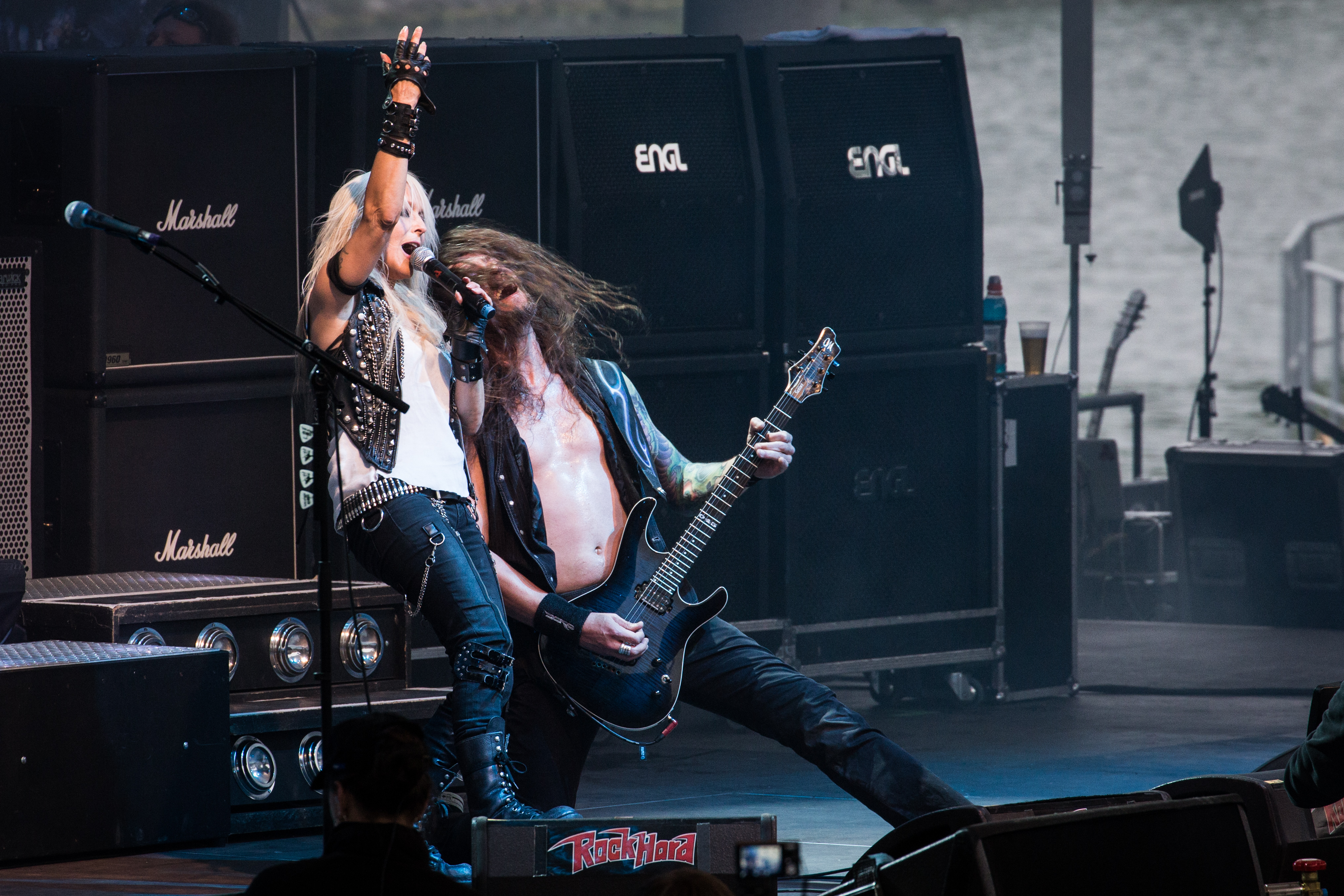 Doro performing live at Rock Hard Festival, May 2015, Gelsenkirchen